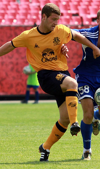 Shkodran Mustafi with Everton FC